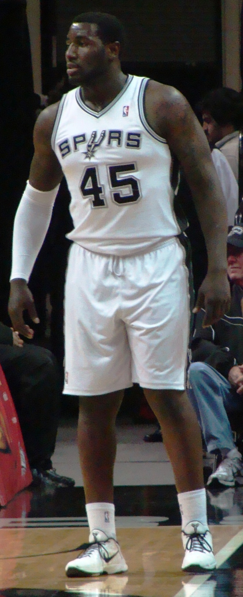 DeJuan Blair of the San Antonio Spurs, during the Spurs-Nuggets match on 12-22-2010 in San Antonio, TX.